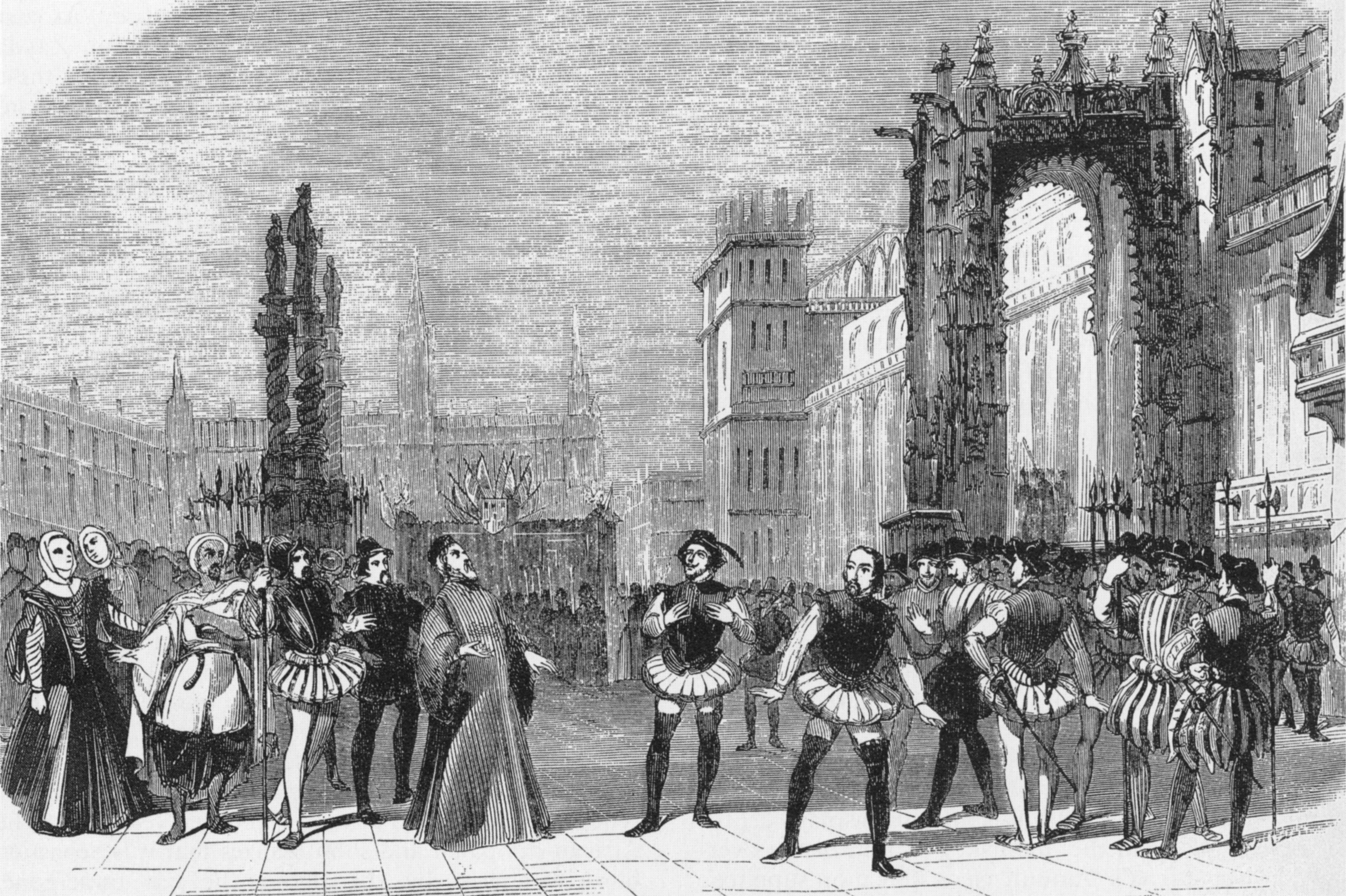 Illustration of Act III of Donizetti's Dom Sébastien as presented in the original production at the Paris Opera's Salle Le Peletier on 13 November 1843. Engraving published in L'Illustration. The Grand Inquisitor orders the arrest of Dom Sébastien.